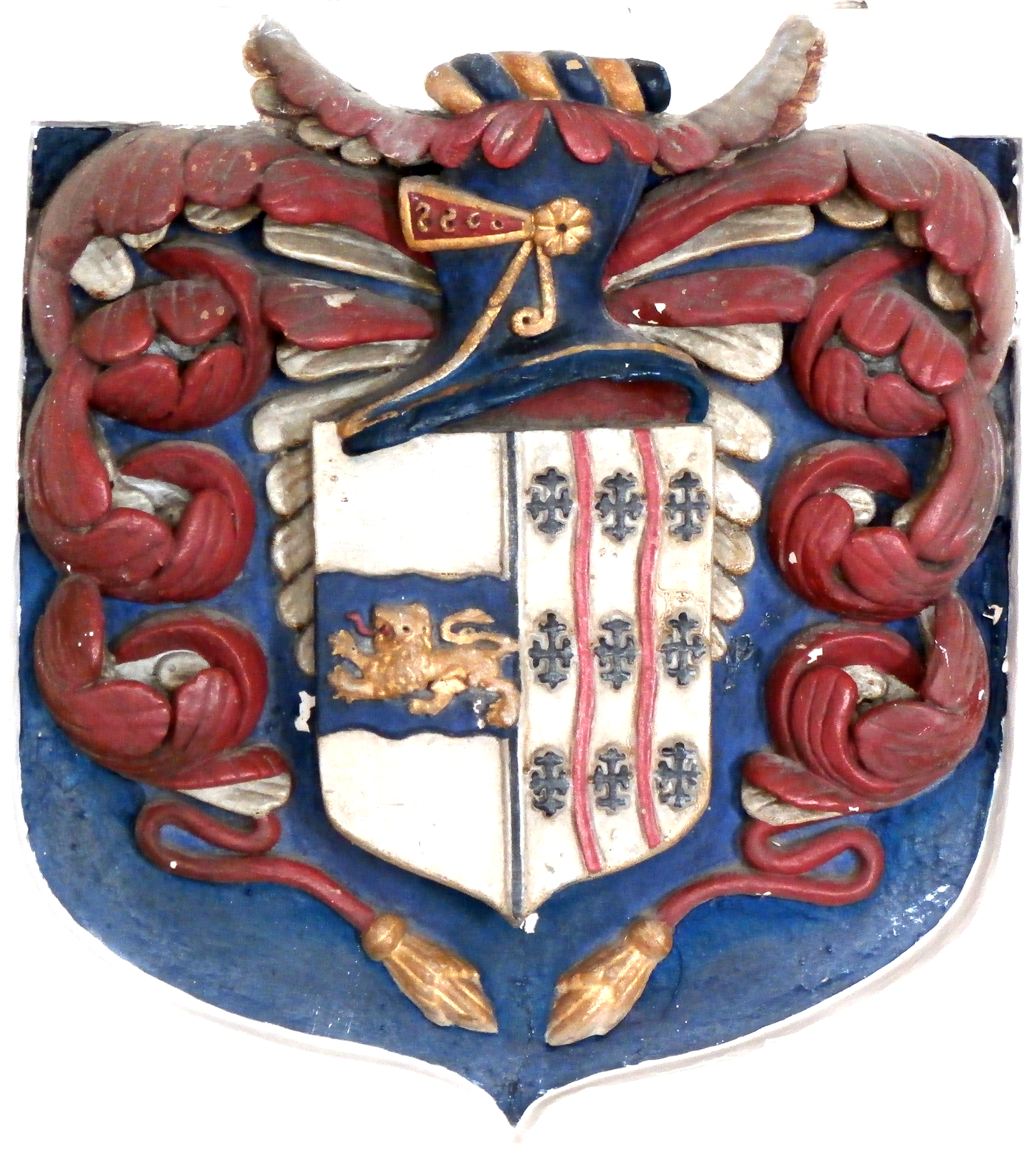 Detail from 17th century plasterwork overmantle in hall of Hudscott House, Chittlehampton, Devon, showing arms of Lovering of Hudscott (Argent, on a fesse wavy azure a lion passant or) impaling Dodderidge (Argent, two pales wavy azure between nine crosses croslet gules). They represent the marriage of John I Lovering (d.1675) to Dorcas Doddridge, sister and co-heiress of John Doddridge (1610-1666), MP, of Bremridge, South Molton and daughter of Pentecost Dodderidge of Barnstaple. The crest of Lovering is missing from on top of the helm.